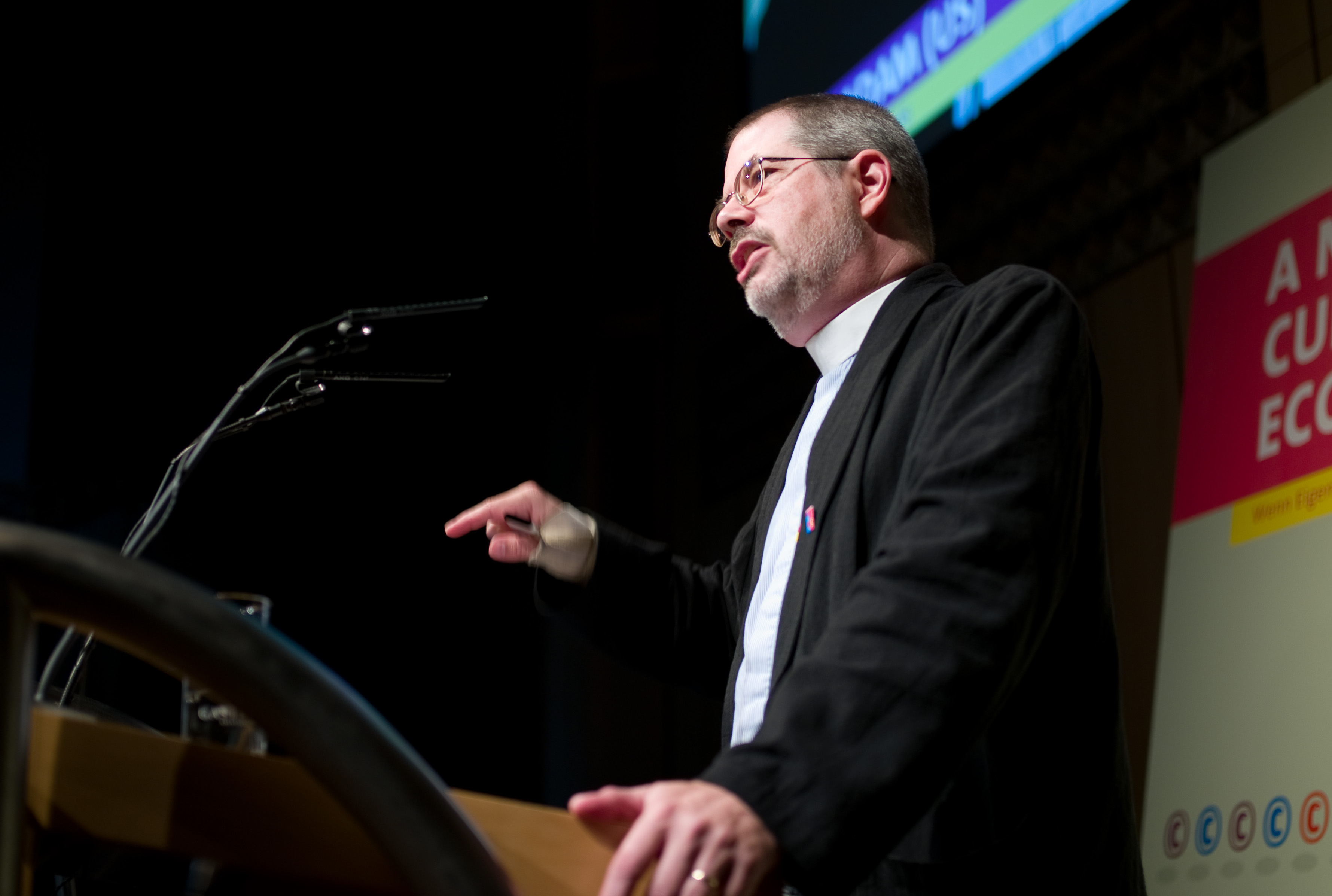 AKMA